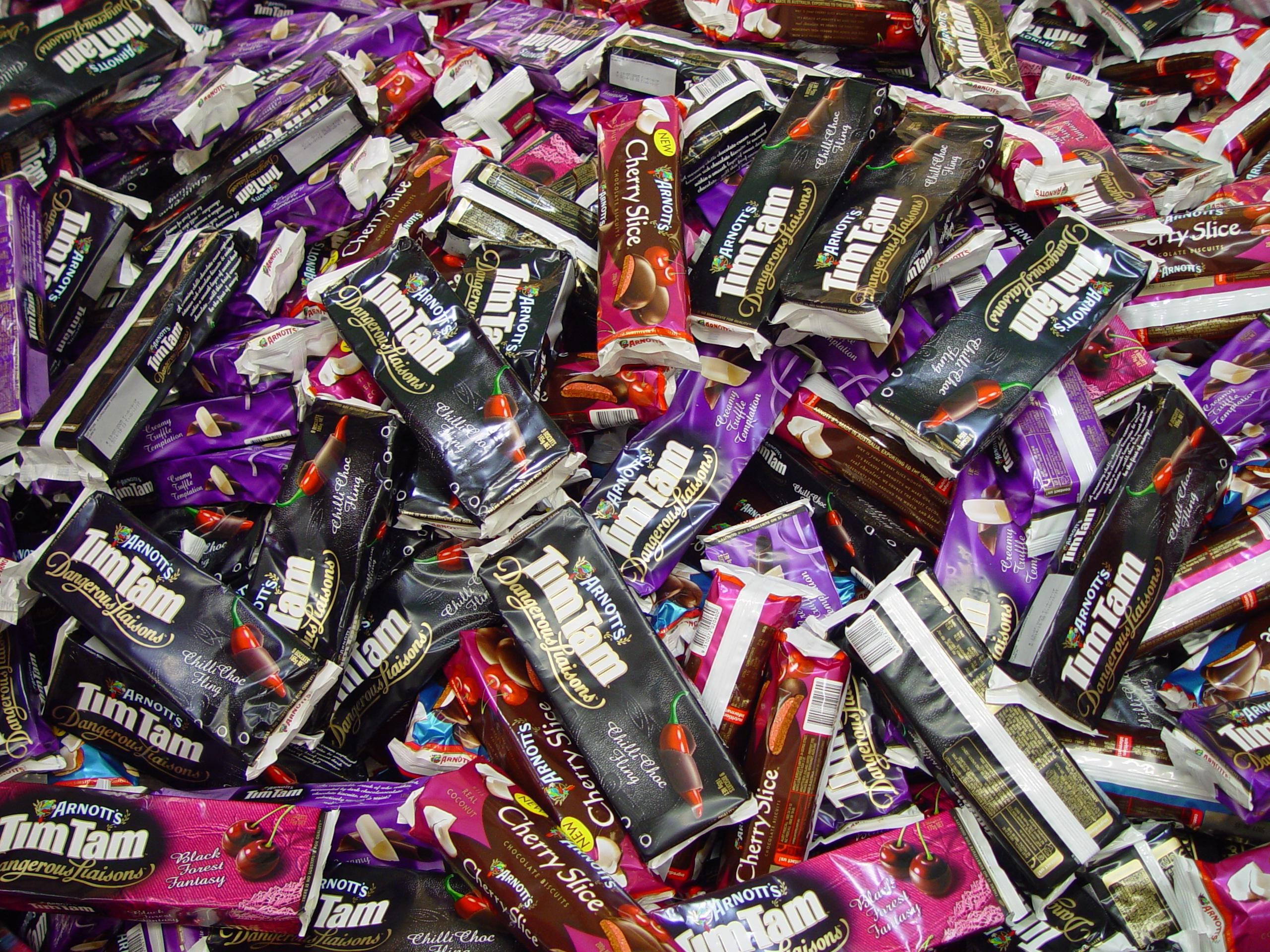 Image title: Endless packets of chocolate biscuits Image from Public domain images website